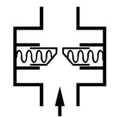 Schematic diagram for the function of a cushion whistle